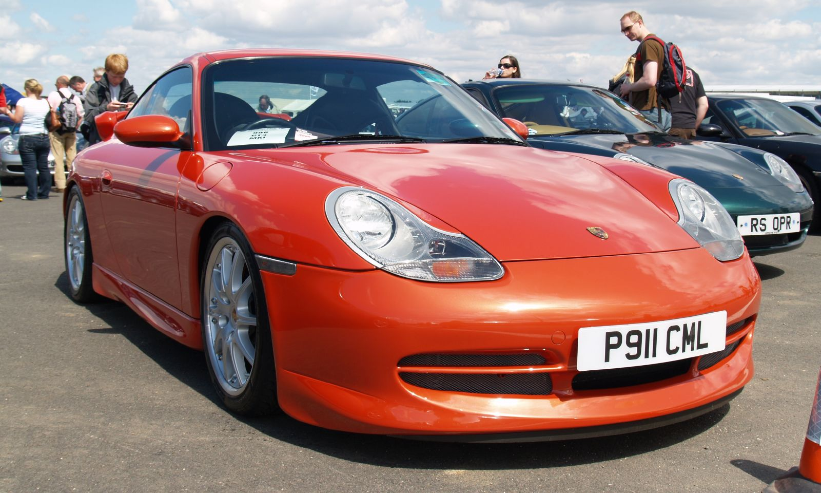 Porsche 911 GT3 (996), orangeperlrotcolor, RHD, P911 CML.